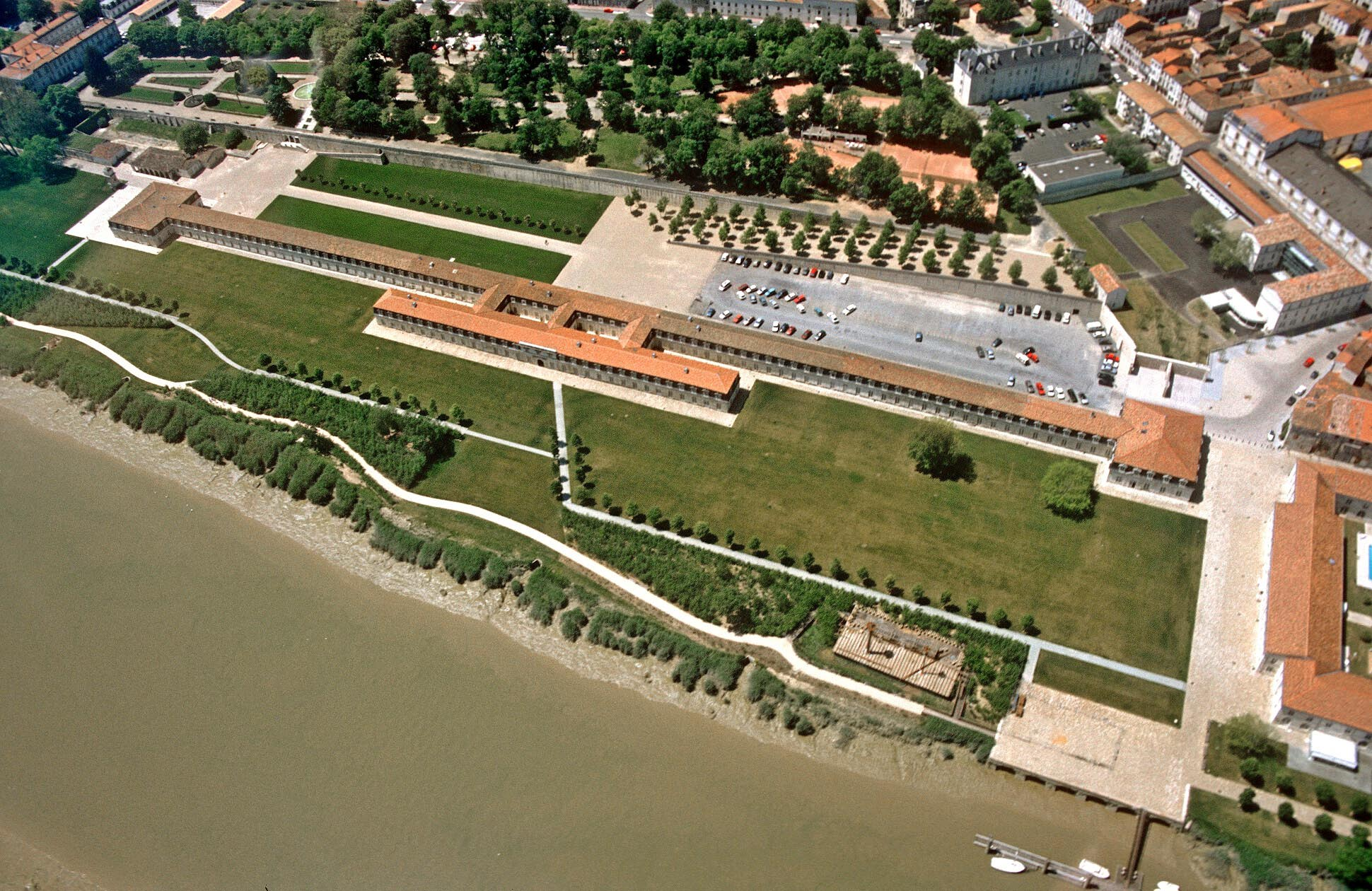 Corderie royale (Rochefort) .